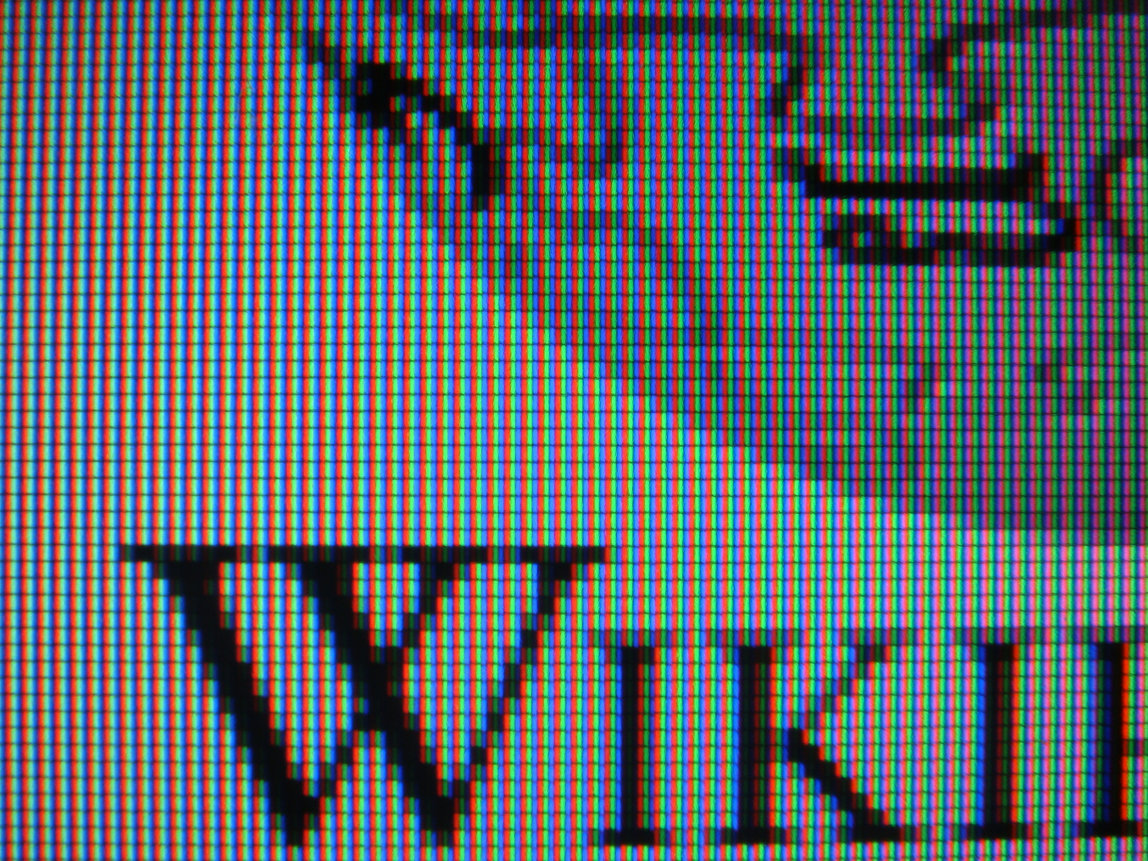 LCD pixel